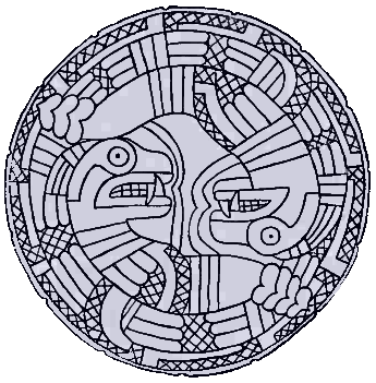 Engraved stone plate from the Mississippian culture of FEATHERED RATTLESNAKES.